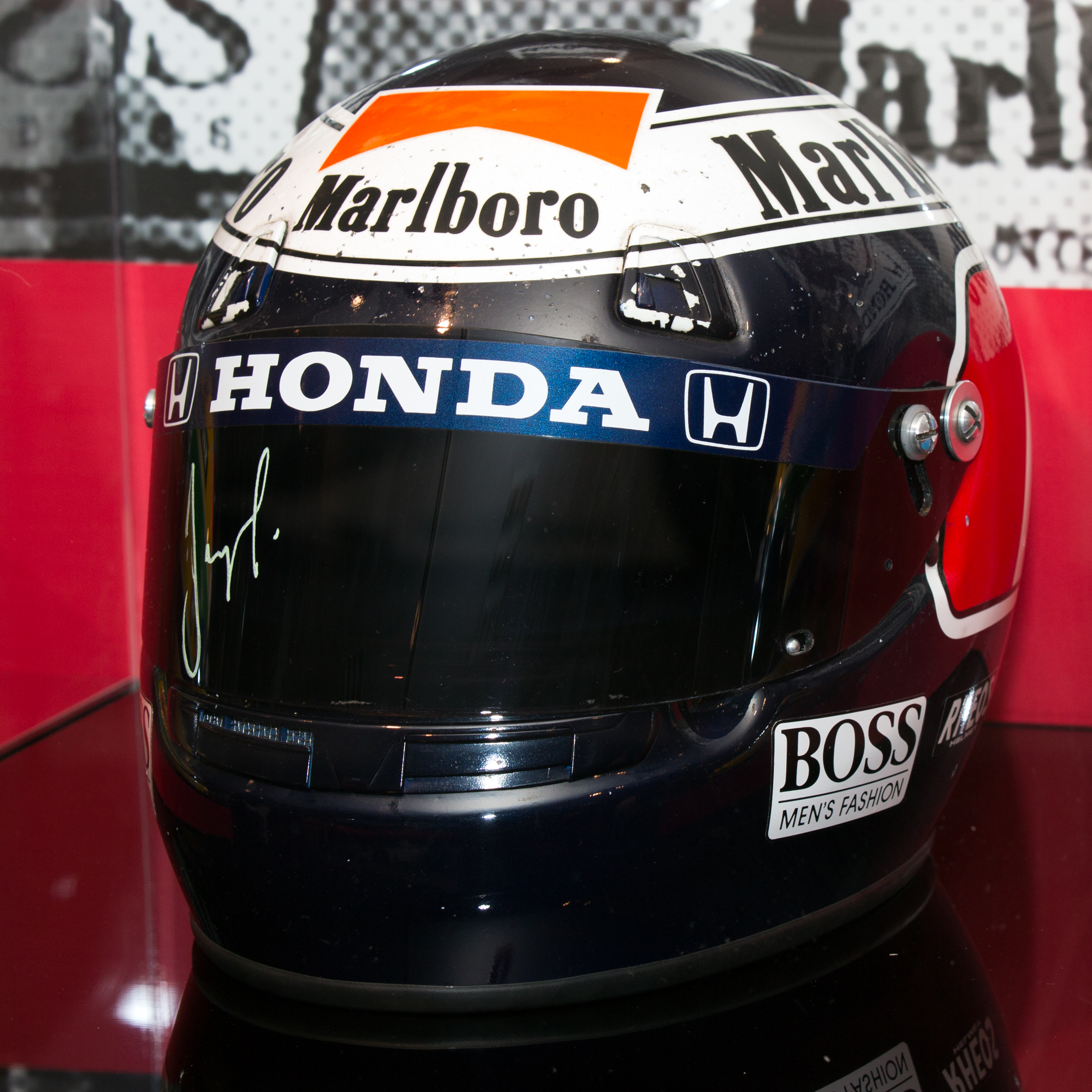 Gerhart Berger's 1991 helmet